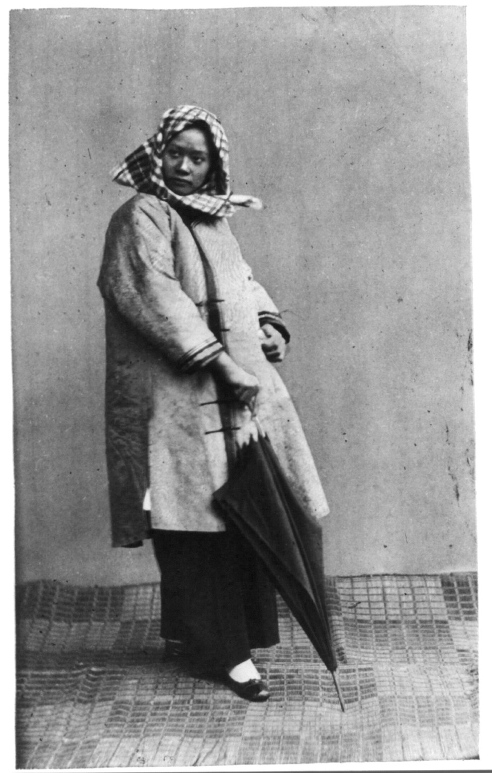 Title: Native Macao Summary: Photograph shows a Chinese woman from Macao, full-length portrait, standing, facing front, holding umbrella. Abstract/medium: 1 photographic print : albumen, hand-colored.